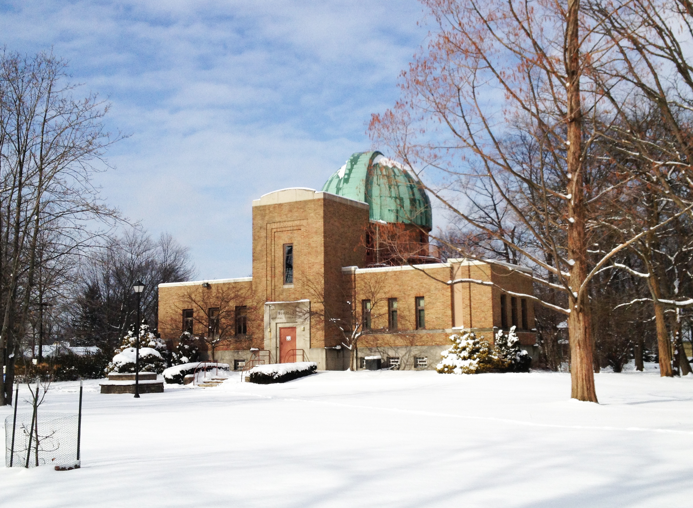 Burrell Observatory on Baldwin Wallace University North Campus